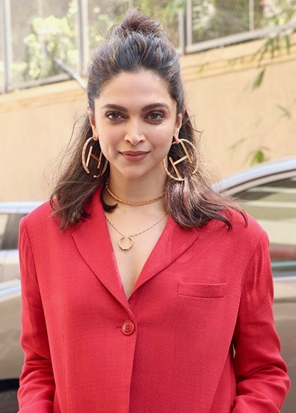 Deepika Padukone promoting Chhapaak